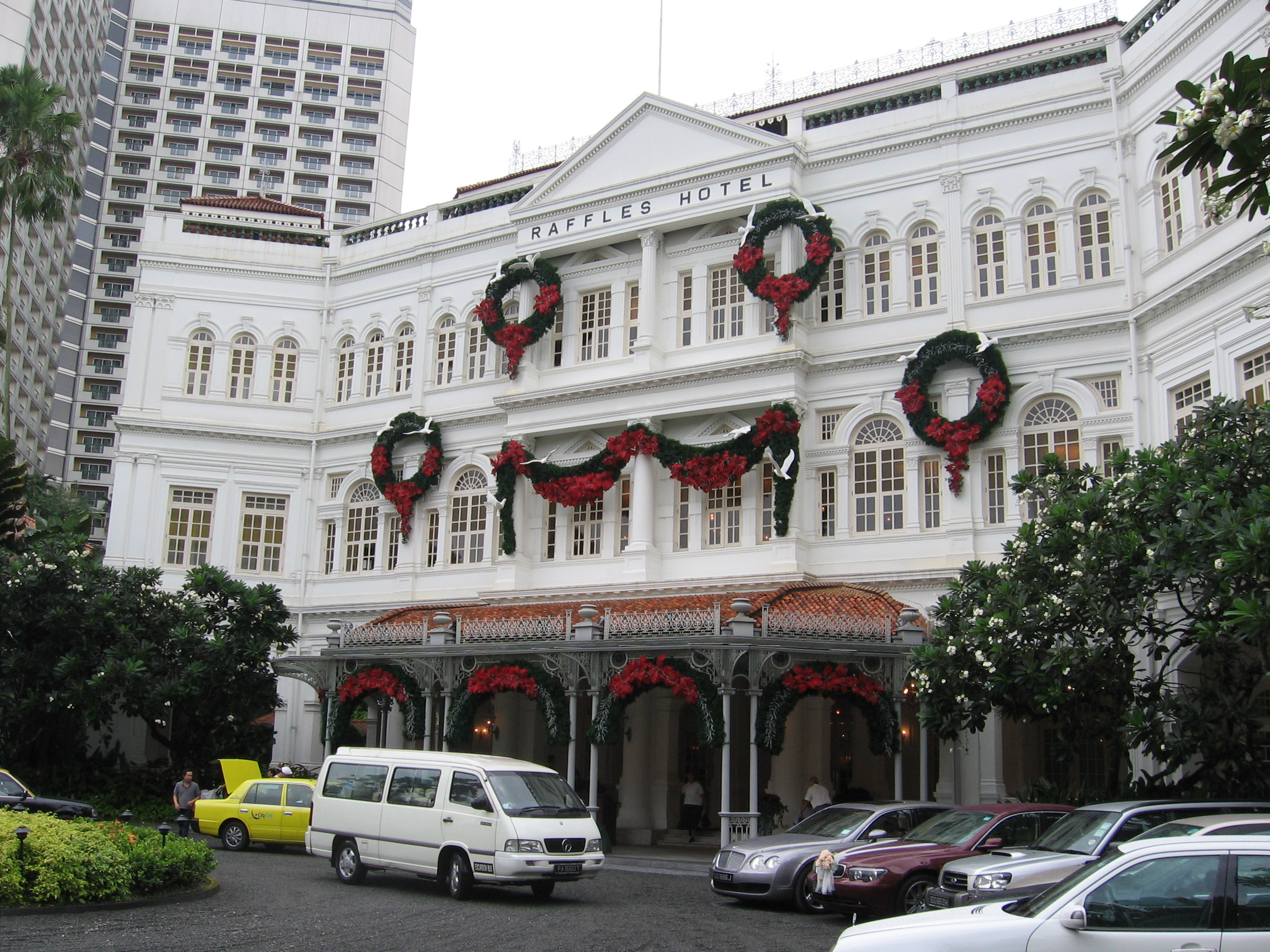 Raffles Hotel, Singapore